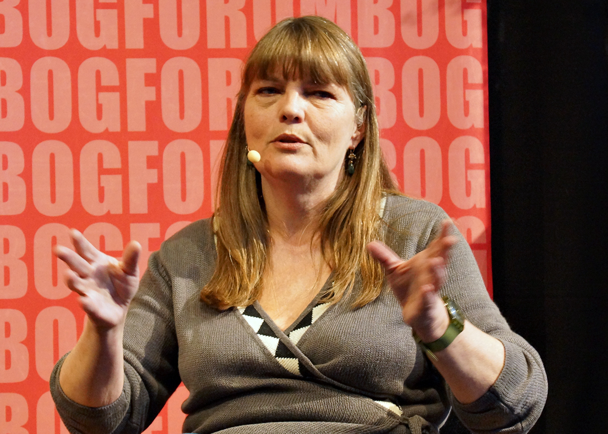 Anna Grue - Danish writer at the Copenhagen Book Fair "BogForum 2012", Copenhagen, Denmark